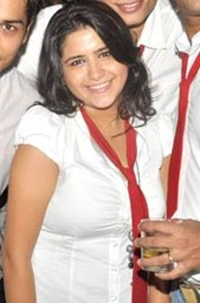 Palak Jain at the Launch Party of her show, The Buddy Project.